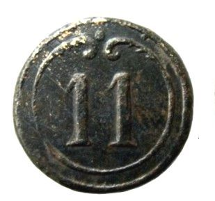 Military button of the french 11e Regiment d'Infanterie